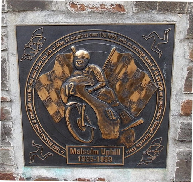 Malcolm Uphill Commemorative plaque dedicated to the late Malcolm Uphill, a Welsh motorcycle road racer from the area, installed after local fundraising into a wall during 2013 at Station Terrace, in Caerphilly town centre, Wales